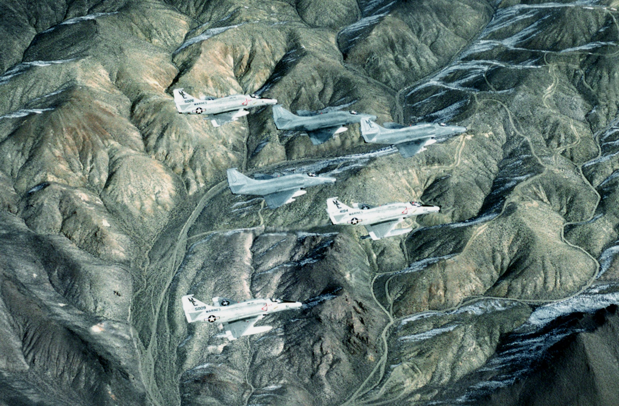 Six U.S. Marine Corps Reserve Douglas A-4F Skyhawk aircraft from Marine attack squadron VMA-133 Dragons in flight near Naval Air Station Fallon, Nevada (USA), on 1 December 1982.